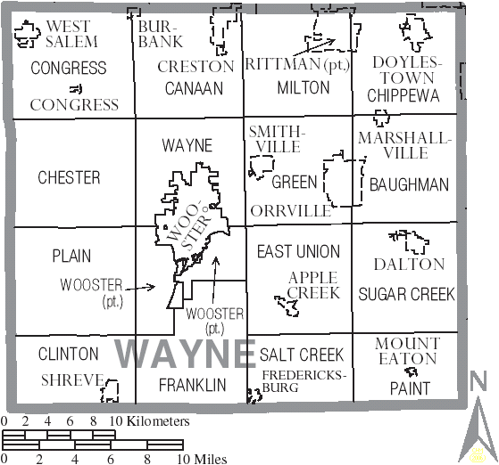 Map of Wayne County, Ohio, United States with township and municipal boundaries